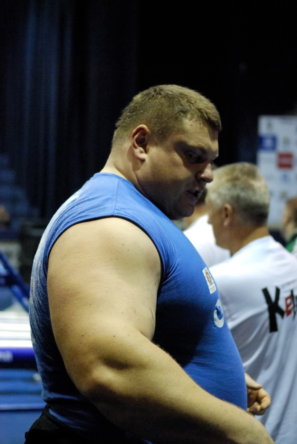 Zydrunas Savickas in IFSA Strongman world championship 2007